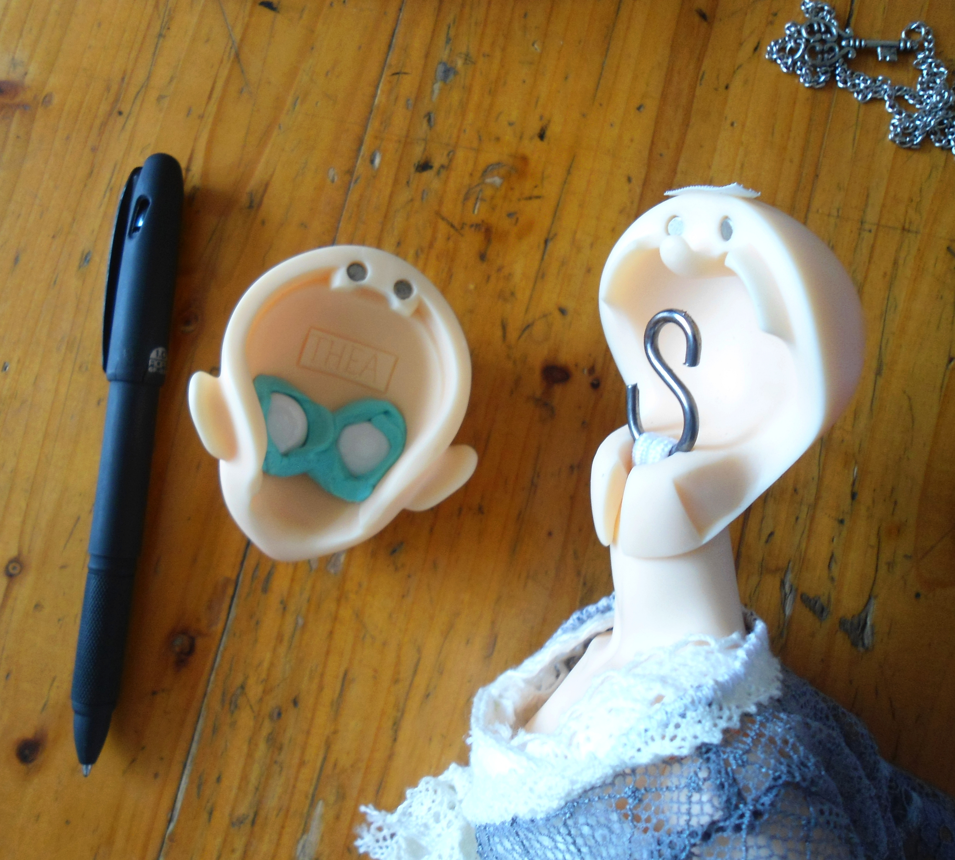 Female ball-jointed doll, head with face off, manufactured in China and purchased online in 2013.